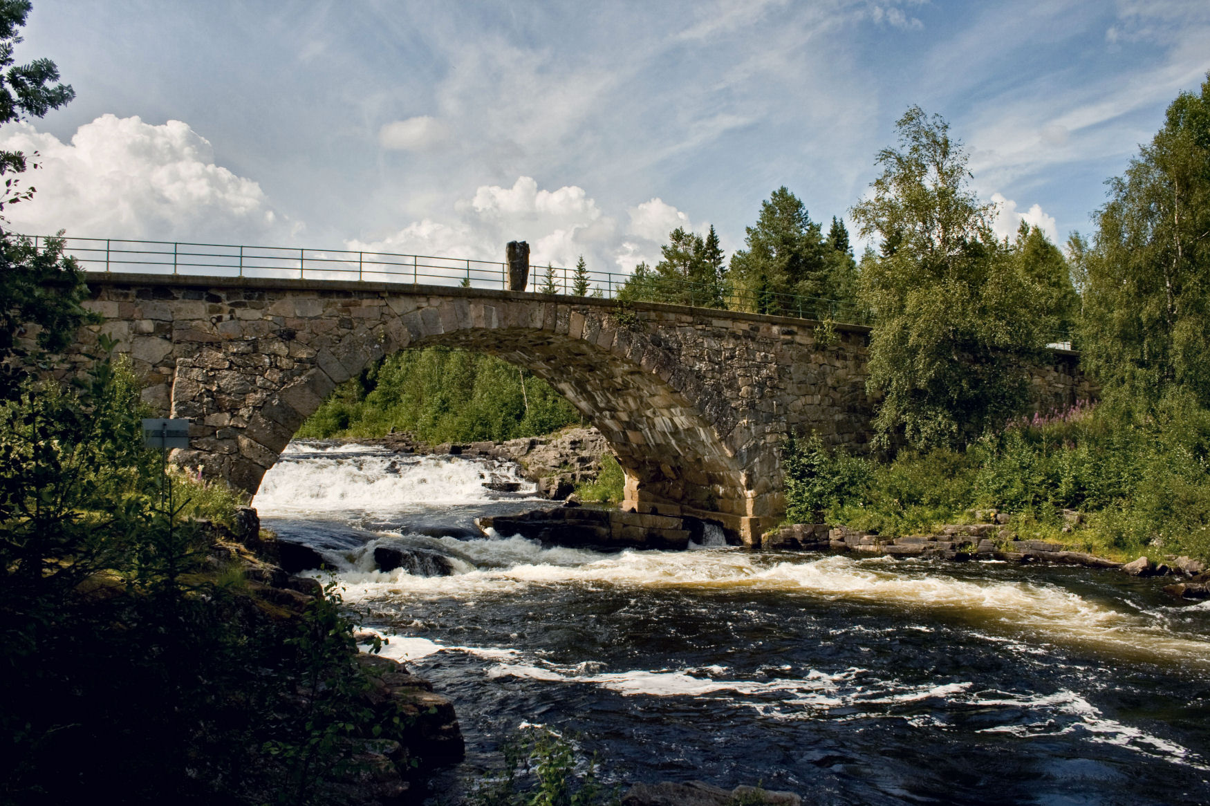 "Åsanbron" in Berg's municipality, Sweden. One of Scandinavia's biggest stone bridges. The span is 24 meters. Opened in 1852.